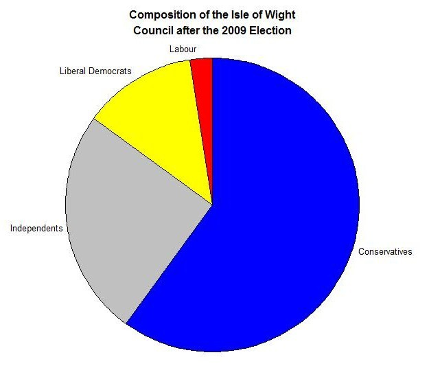 Composition of the Isle of Wight Council after the 2009 election. Blue = Conservatives Gray = Independent Yellow = Liberal Democrats Red = Labour